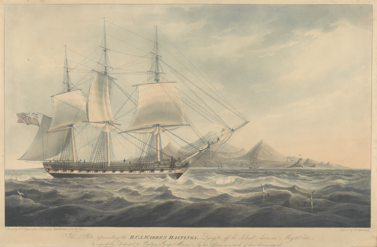 This Plate Representing the H.C.S. Warren Hastings, : lying to off the Island Ascension, May 22nd 1823... dedicated to Captain George Mason by his Officers... Hand-coloured. This Plate Representing the H.C.S. Warren Hastings, : lying to off the Island Ascension, May 22nd 1823... dedicated to Captain George Mason by his Officers...